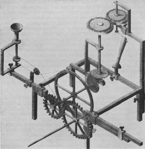 Optical-grinding engine model. This is perhaps the first machine drawing rendered in 30 degrees isometric.